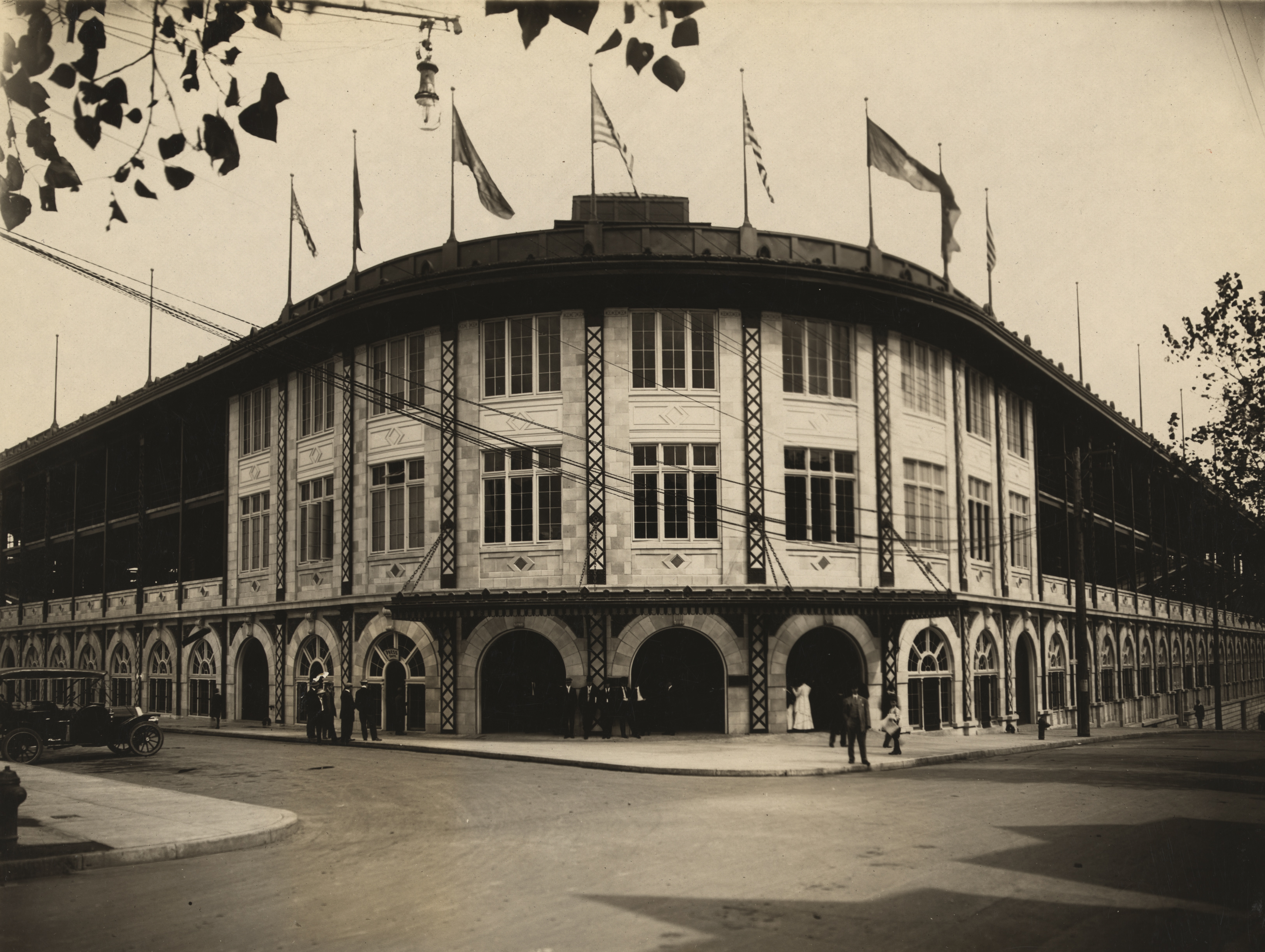 Exterior of Forbes Field, Pittsburgh, Pennsylvania circa 1909